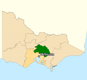 This image incorporates data that is: © Commonwealth of Australia (Australian Electoral Commission) 2009 Division of McEwen 2010